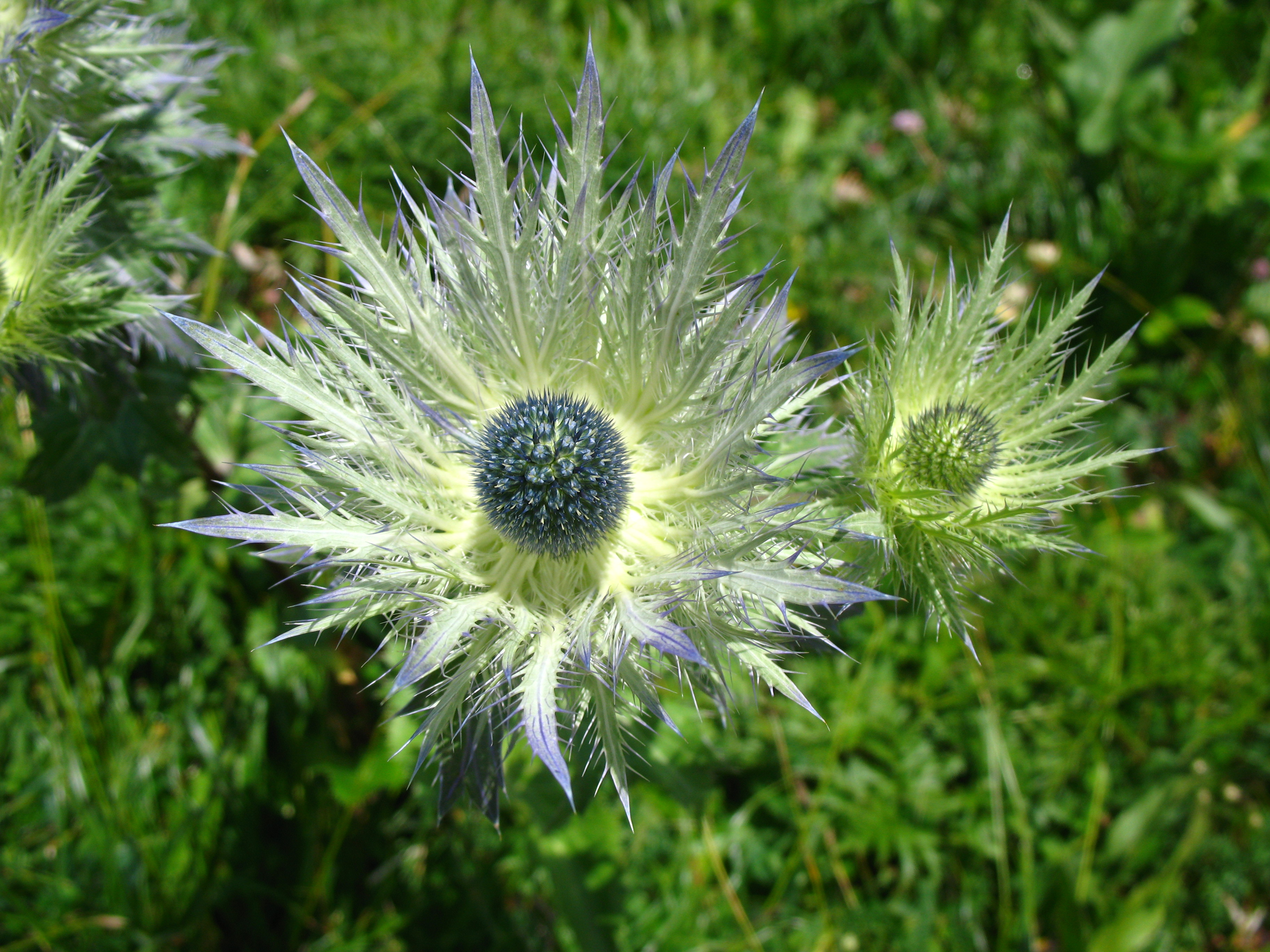 Eryngium alpinum, Schynige Platte, Switzerland